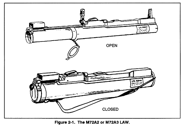 M72A2-LAW from US army field manual FM 23-25. The M72-series LAW is a lightweight, self-contained, antiarmor weapon consisting of a rocket packed in a launcher (Figure 2-1). It is man-portable, may be fired from either shoulder, and is issued as a round of ammunition. It requires little from the user--only a visual inspection and some operator maintenance. The launcher, which consists of two tubes, one inside the other, serves as a watertight packing container for the rocket and houses a percussion-type firing mechanism that activates the rocket. FM 23-25 Document Information Distribution Restrictions: Approved for public release; distribution is unlimited Government Agency: US ARMY Document Type: FIELD MANUAL Document Number: FM 23-25 Document Title: LIGHT ANTIARMOR WEAPONS Document Date: 17 Aug 1994 Document Status: Released School: INFANTRY Proponent: Commandant, US Army Infantry School MAILING ADDRESS: Commandant, US Army Infantry School ATTN: ATSH-INB-O Fort Benning, GA 31905-5595